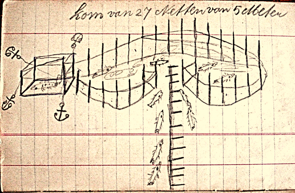 Fishermen copied the new method from each other. (From fischerman book K. Palma at Roptazijl